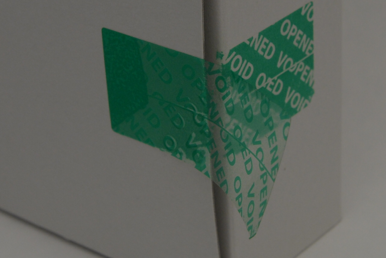 These self-adhesive security permanent labels leave an easy to see VOID/OPEN security message in the label itself, while leaving a dry, permanent adhesive and VOID residue on the sealed surface. Delivering an instant, additional layer of security. These advanced tamper evident solution with a high contrast matt finish giving an excellent VOID and a surface that can be written on in biro. Protecting products and packaging from tampering, unauthorised opening and counterfeiting.